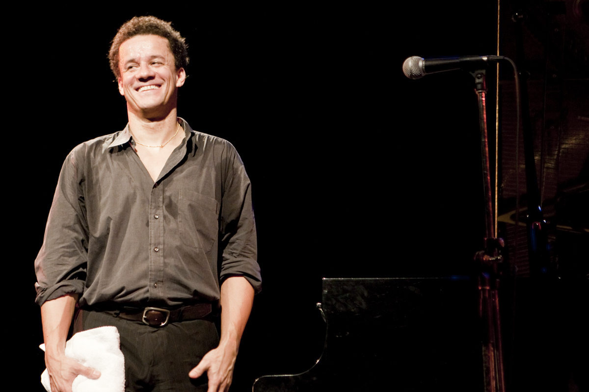 French jazz pianist Jackie Terrasson at Domicil Dortmund